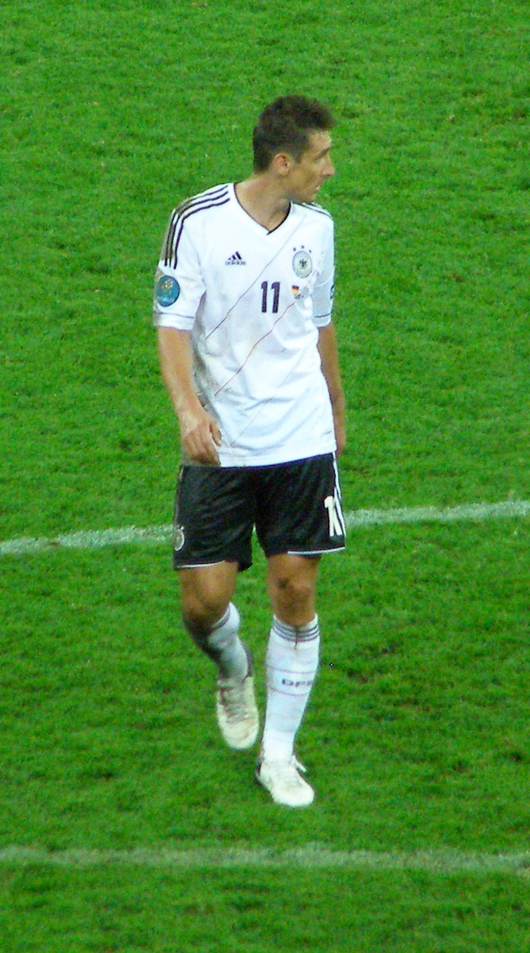 Gdańsk - PGE Arena - Euro 2012 - quarter final match Germany - Greece - Miroslav Klose